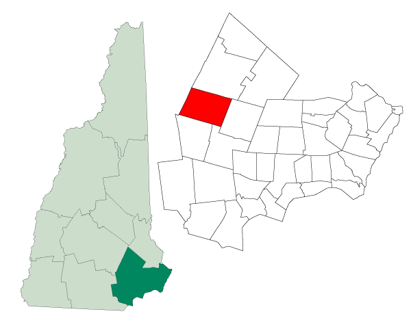 Map of a municipality in Rockingham County, New Hampshire